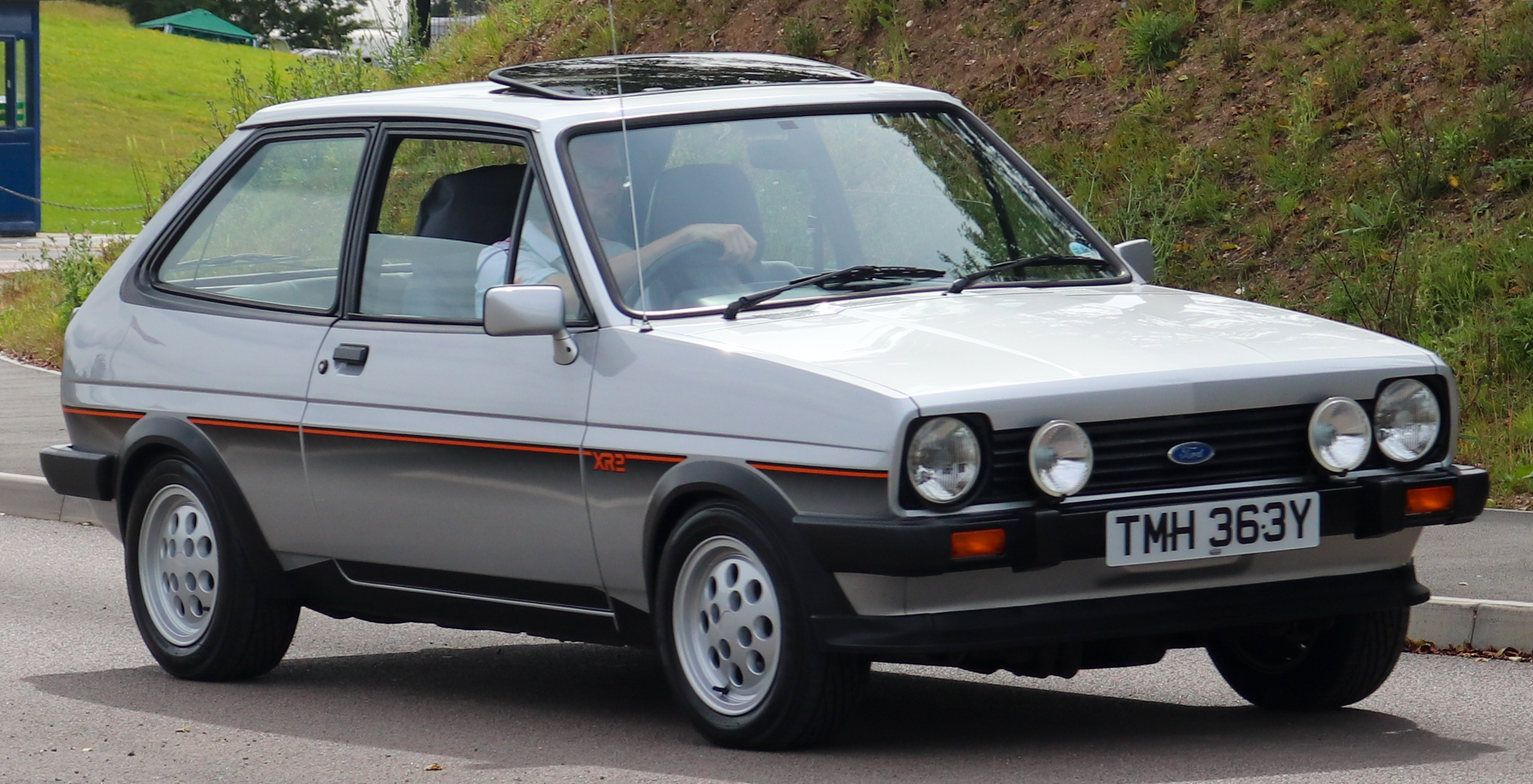 1983 Ford Fiesta XR2 1.6 Taken at the British Motor Museum Old Ford Rally 2019, Gaydon